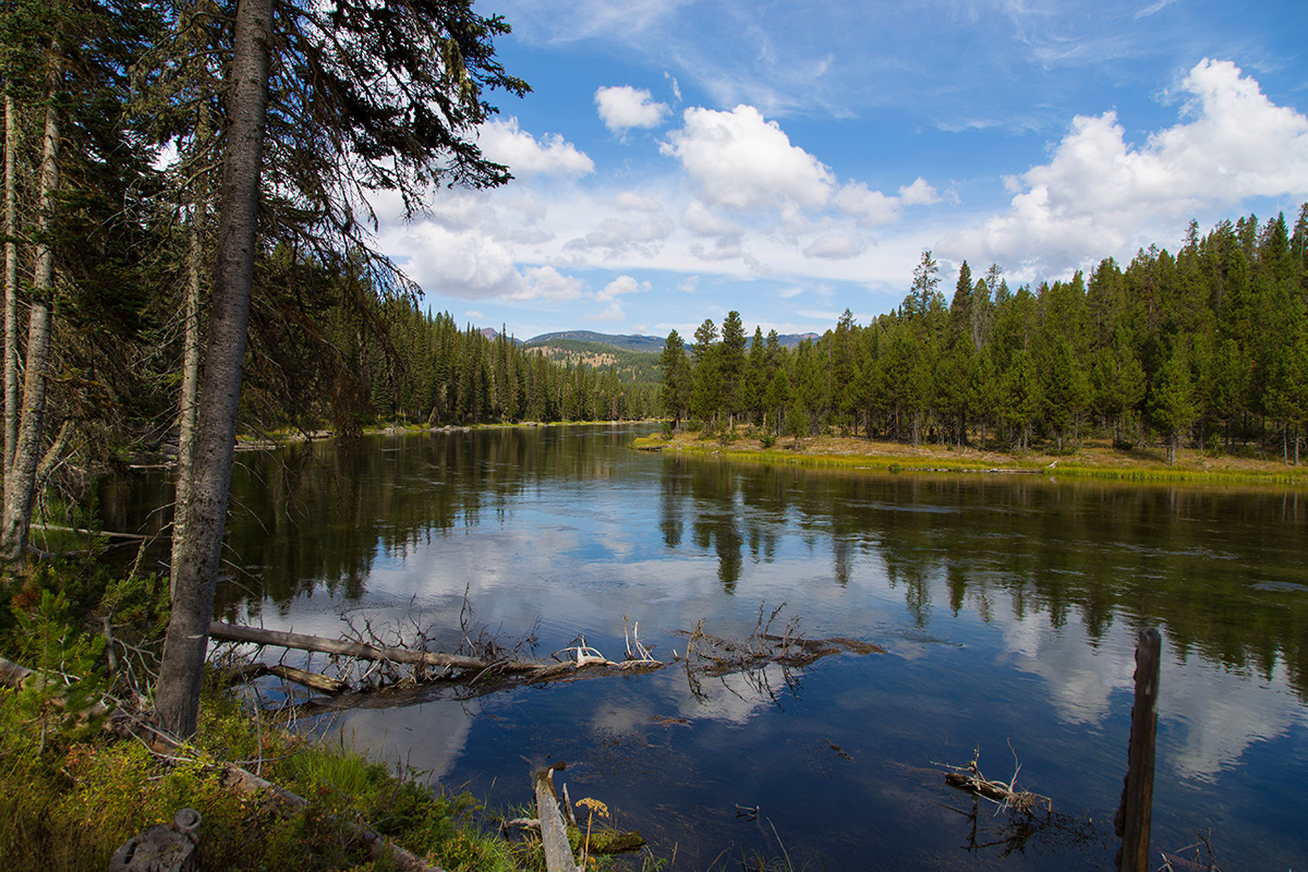 Henry's Fork of the Snake River near the Coffee Pot Rapids area near Island Park, Idaho